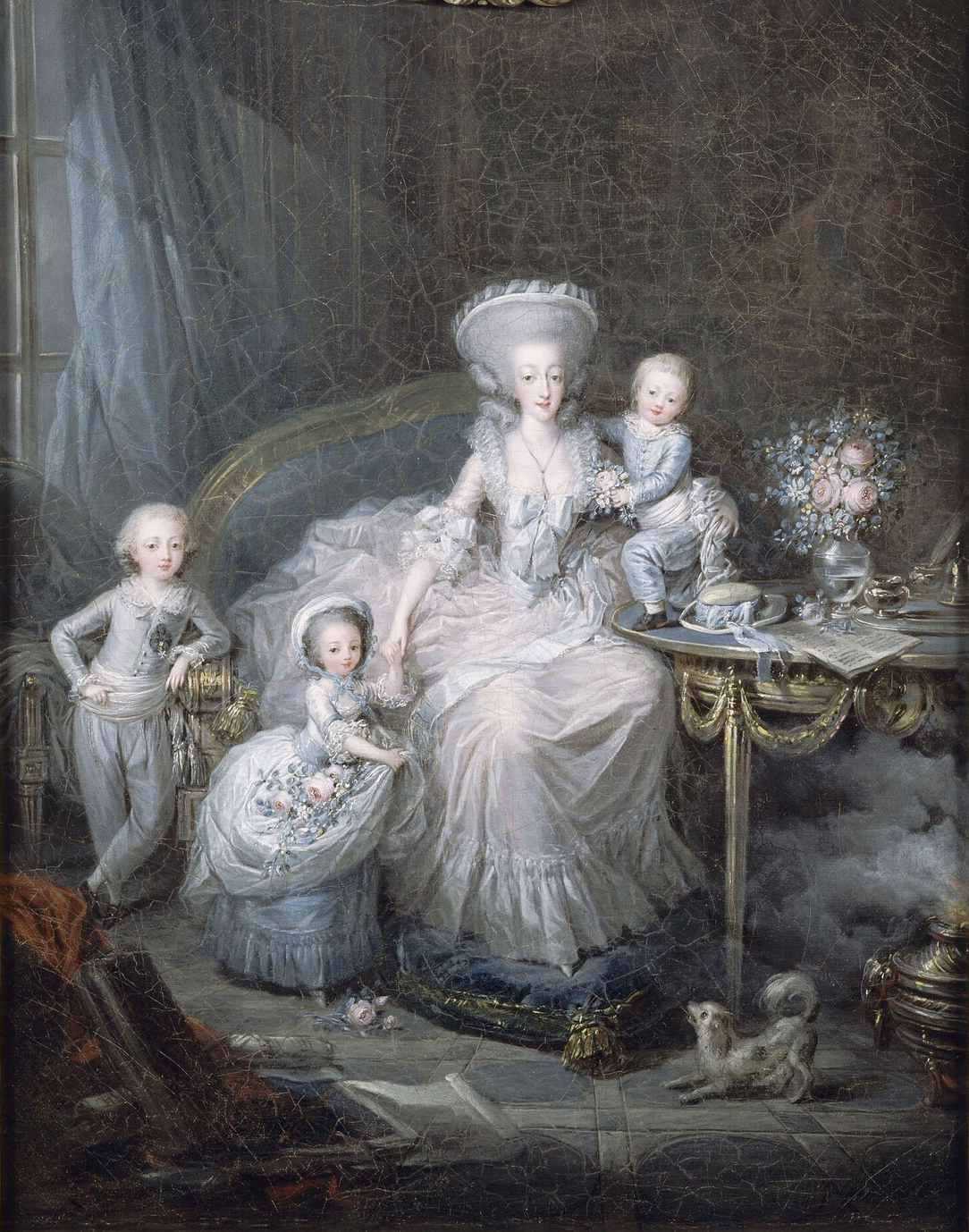 Maria Theresa of Savoy, comtesse d'Artois, wife of the future Charles X of France; the dukes of Angoulême and Berry are with their sister Sophie